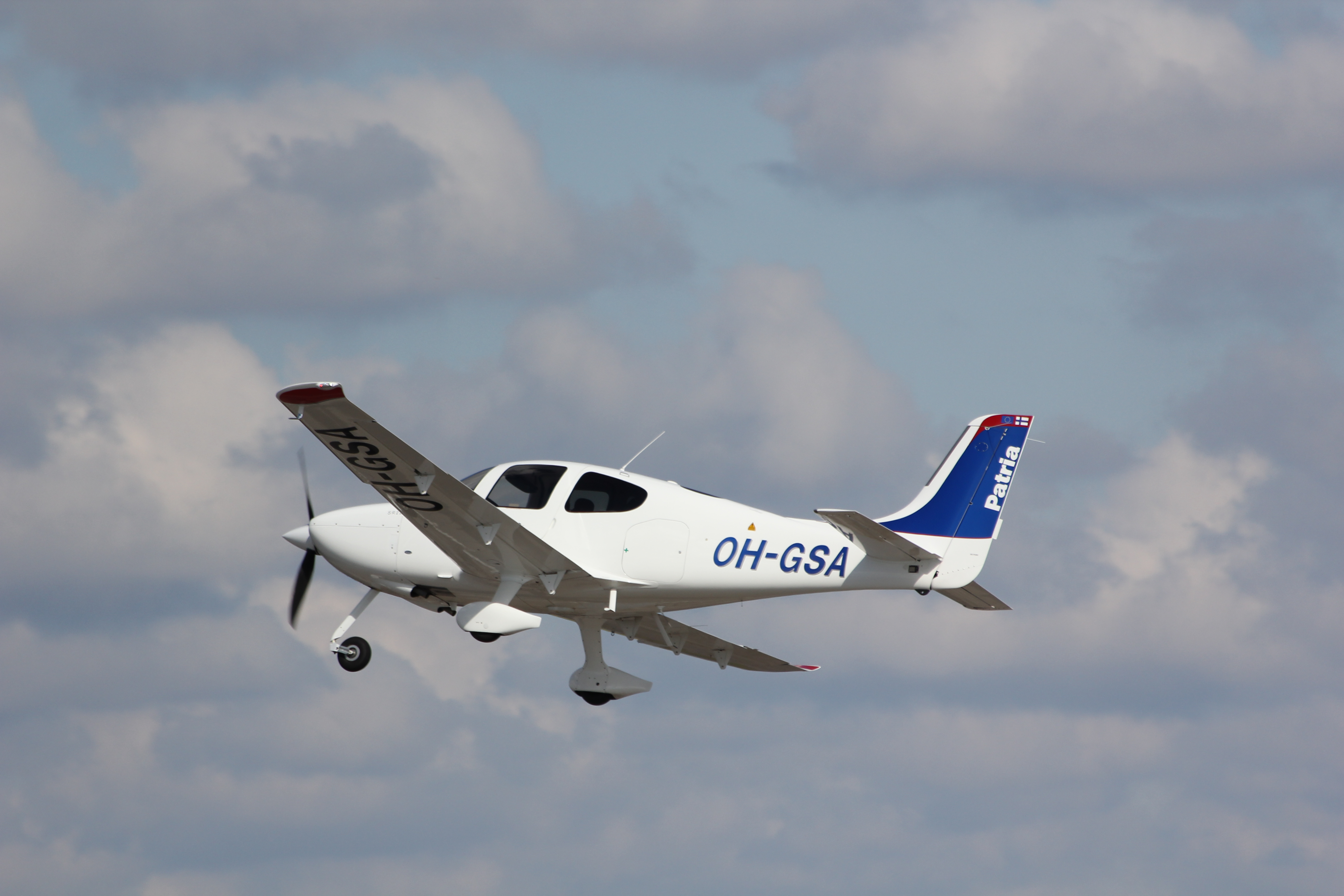 Patria flight training Cirrus SR22 trainer at Sami Kontio Challenge air show over Helsinki-Malmi Airport.